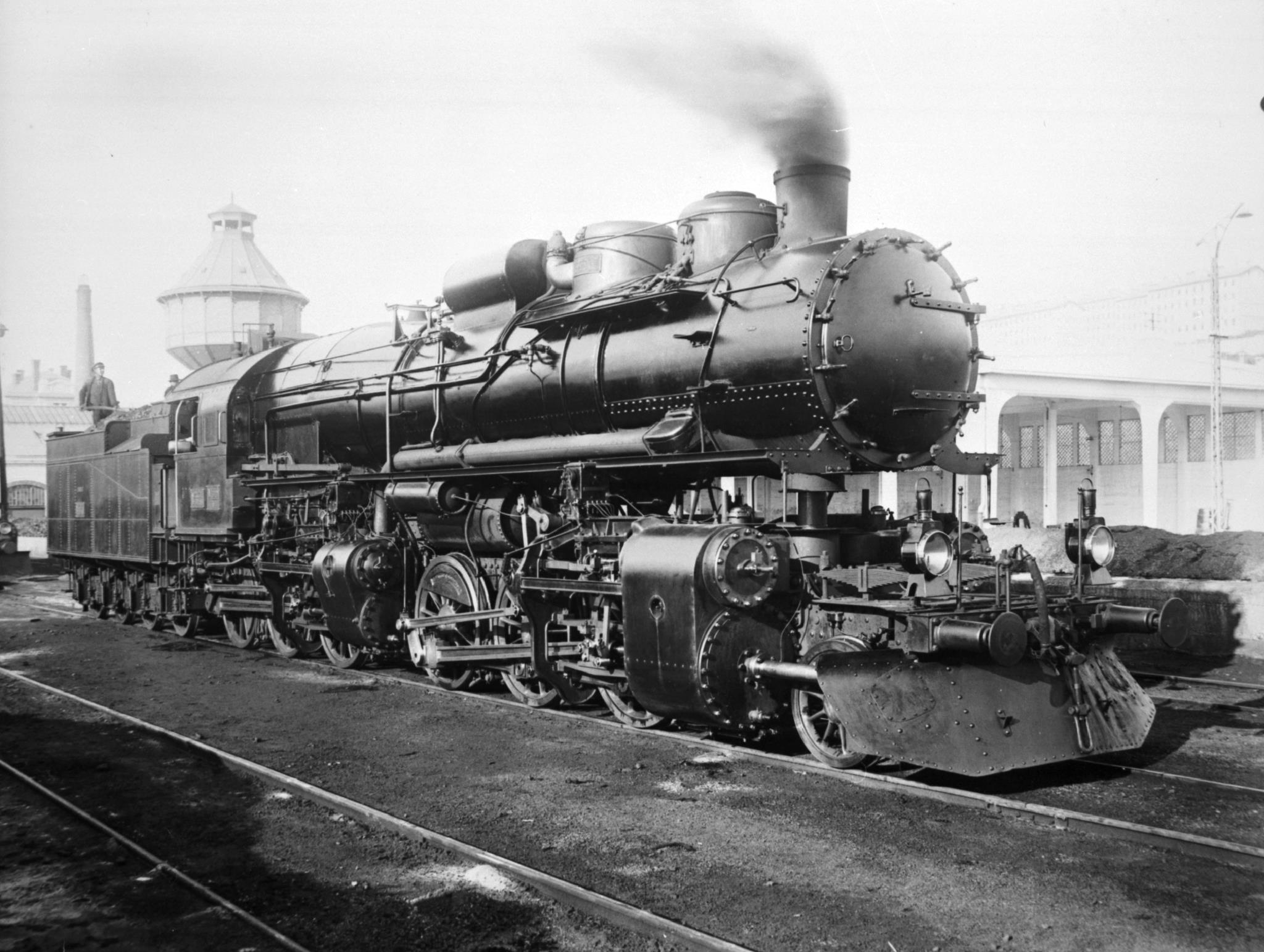 MÁV Class 601 steam engine